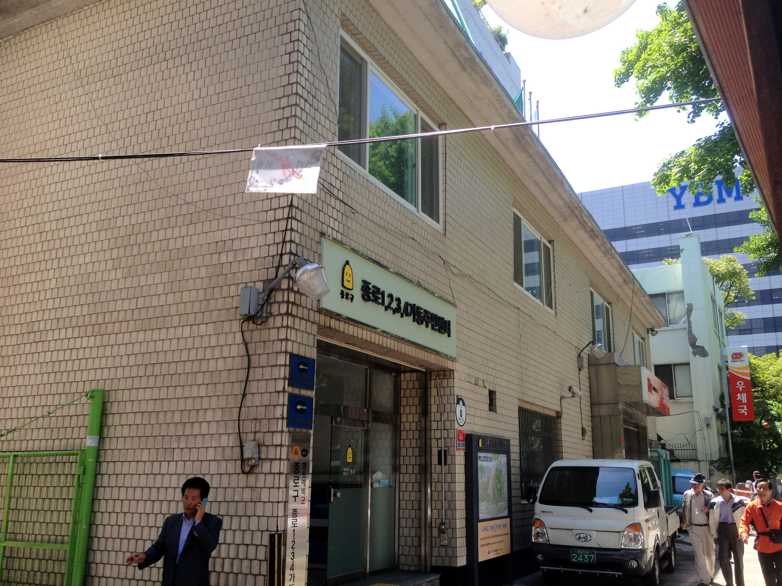 Jongno 1.2.3.4-ga-dong Comunity Service Center(Jongno-gu)